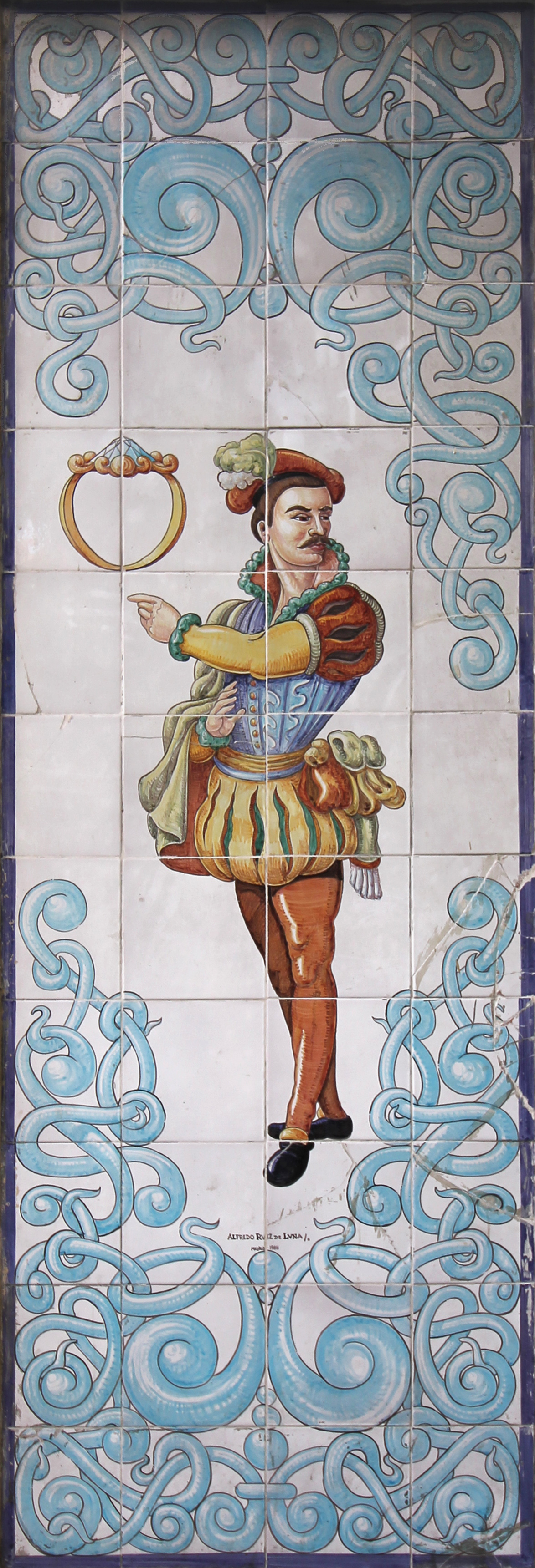 Detail of the façade of El Sotanillo bar-restaurant.